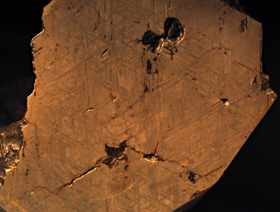 Wabar meteorite [1]. A cross-section showing Widmanstätten patterns. Photograph taken at the Natural History Museum, London.